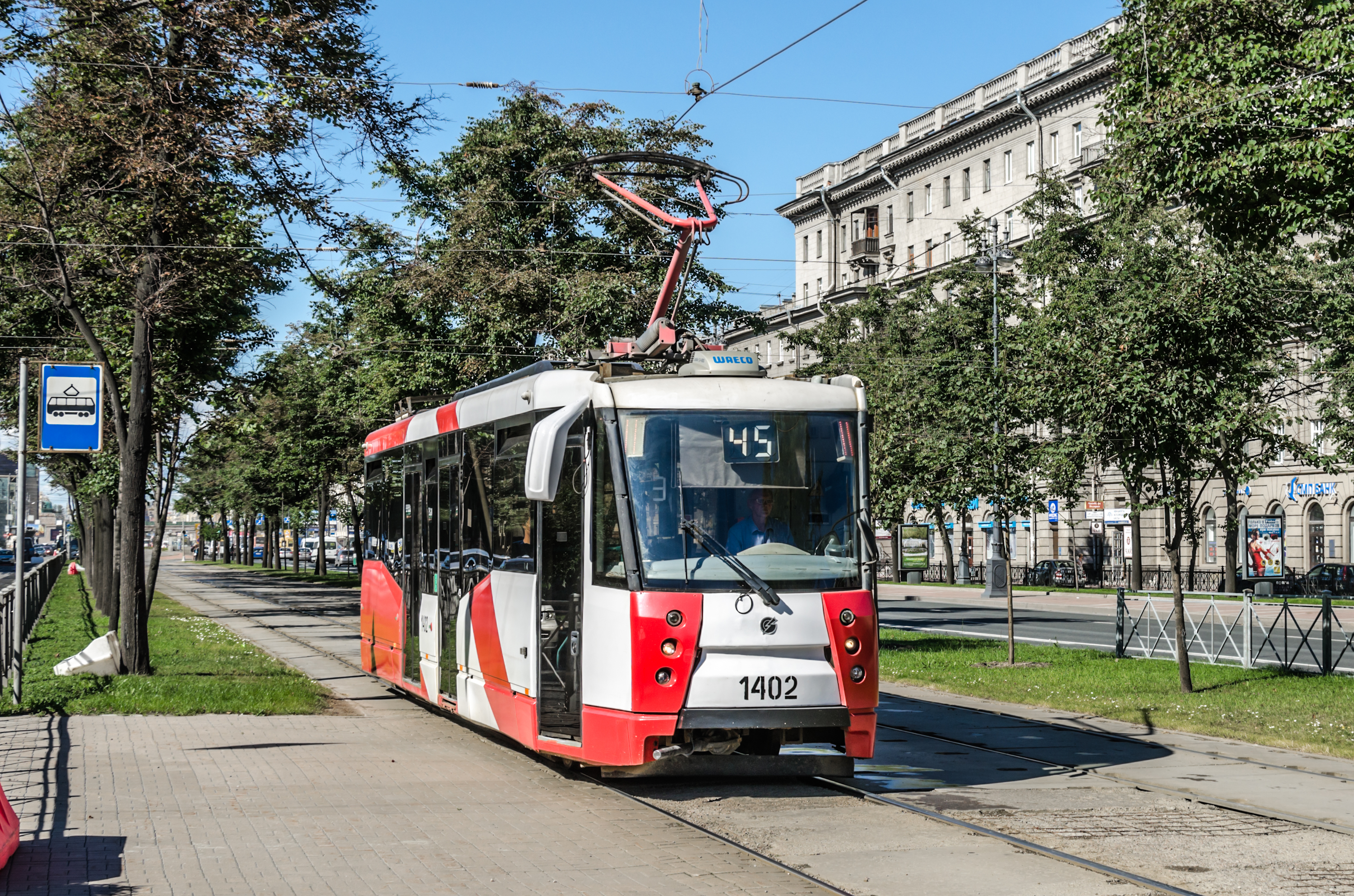 Tram LM-2008 on Moskovskiy avenue in Saint Petersburg